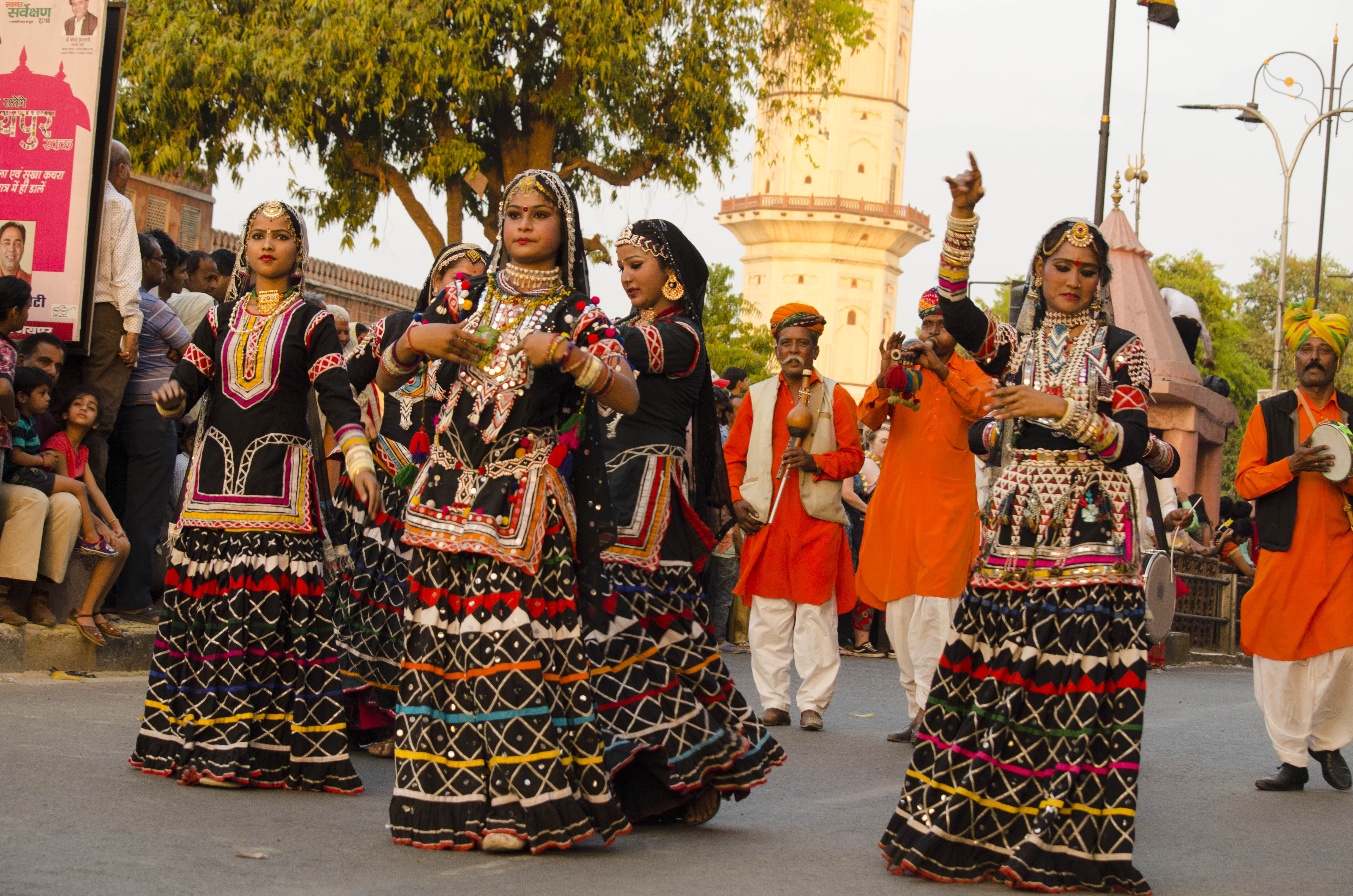 kalbelia is one of the folk dance of rajasthan state it is performed by tribal people from across the rajasthan state in festivals and fairs . kalbelia dancers female wore black dress and male plays musical intruments on which they perform . kalbelia dance is now unesco intangible cultural heritage This photo has been taken in the country: India